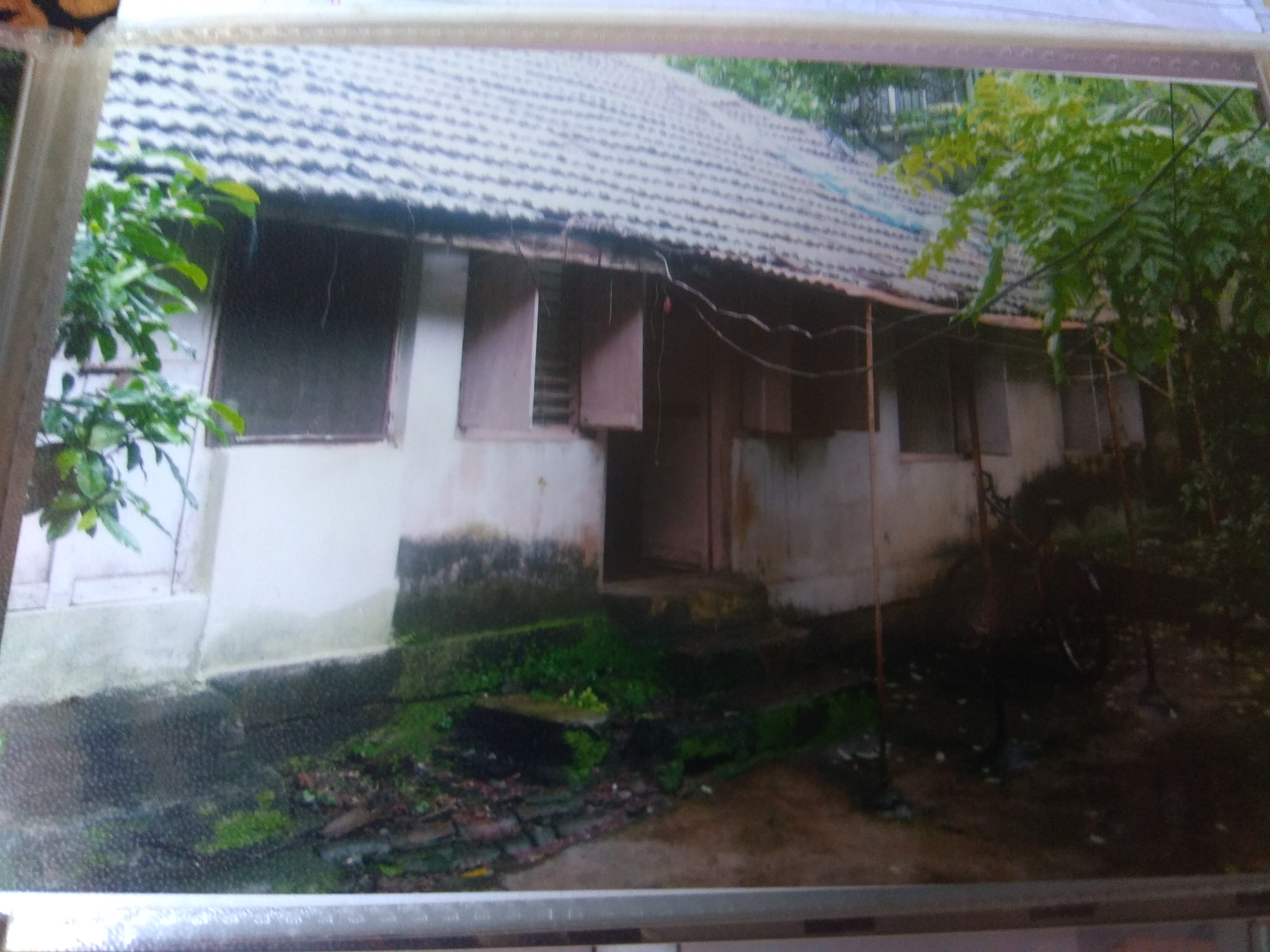 This house is called Chousopi wada.